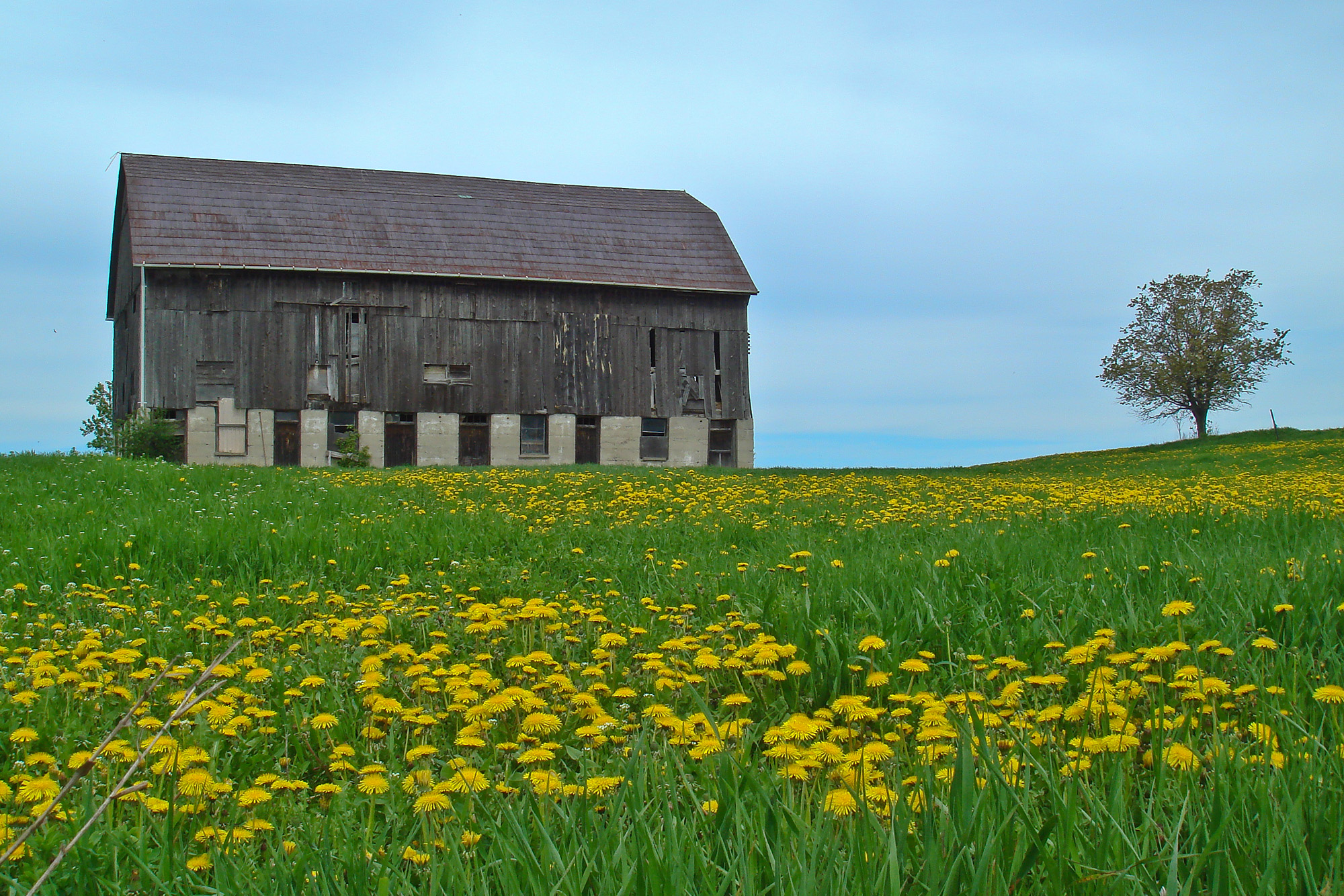 Along Castlederg road north of Bolton, in Caledon, Ontario,. Canada